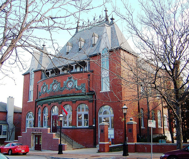 The YMCA on Quality Hill in Downtown Kansas City, MO, formerly home to the Progress Club from 1893-1928